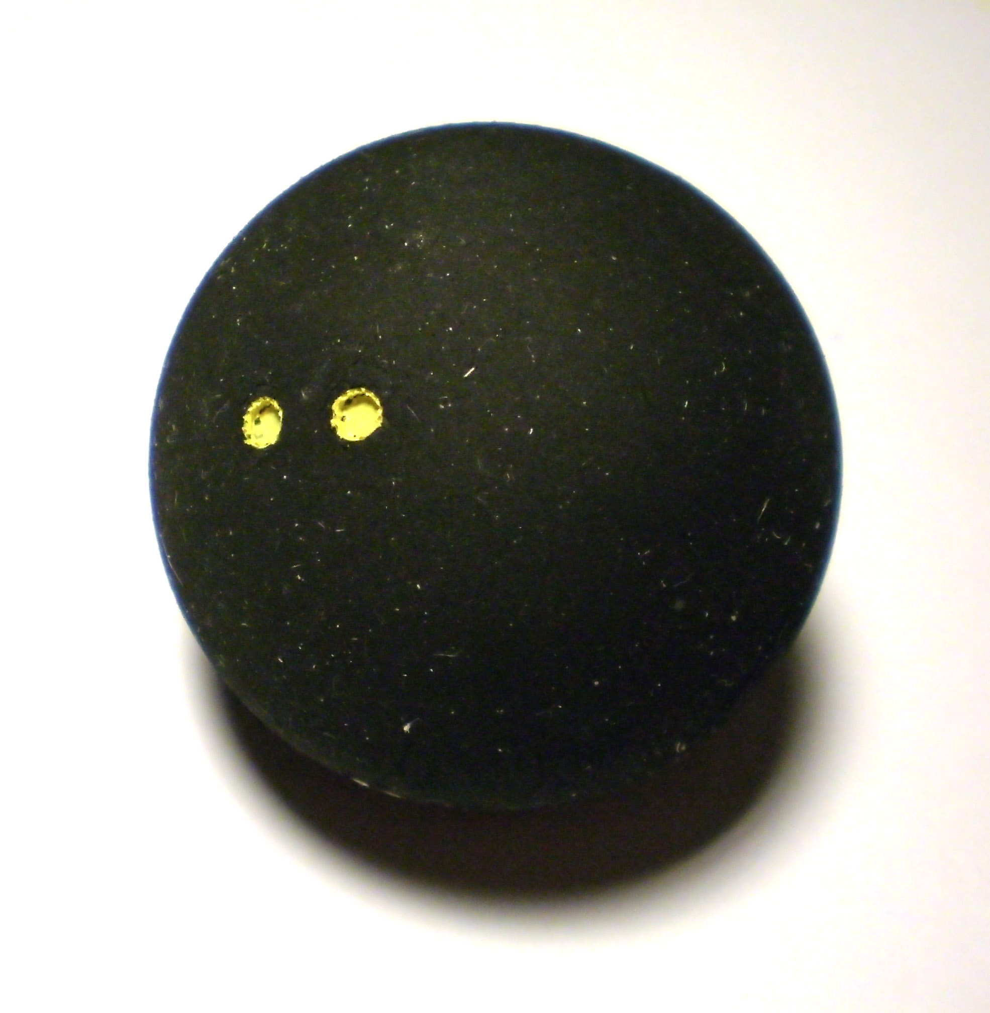 Squash Ball Dunlop Reveleation Pro with visible coloured dots (2x yellow)